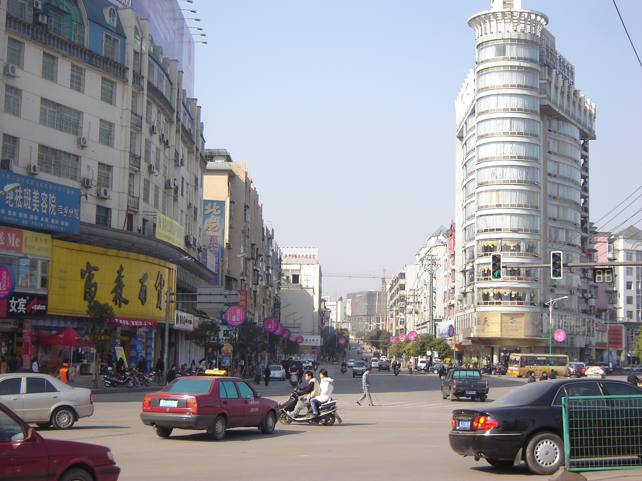 The intersection of two streets in the downtown area of Pingxiang City, Jiangxi, PRC.